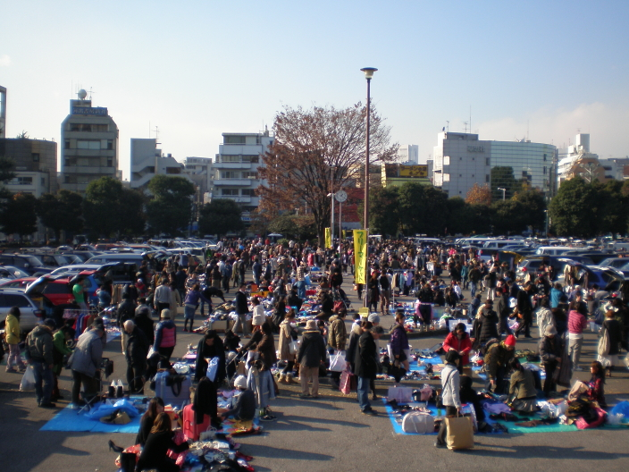 A Flea Market at Meiji Park, in Tokyo.